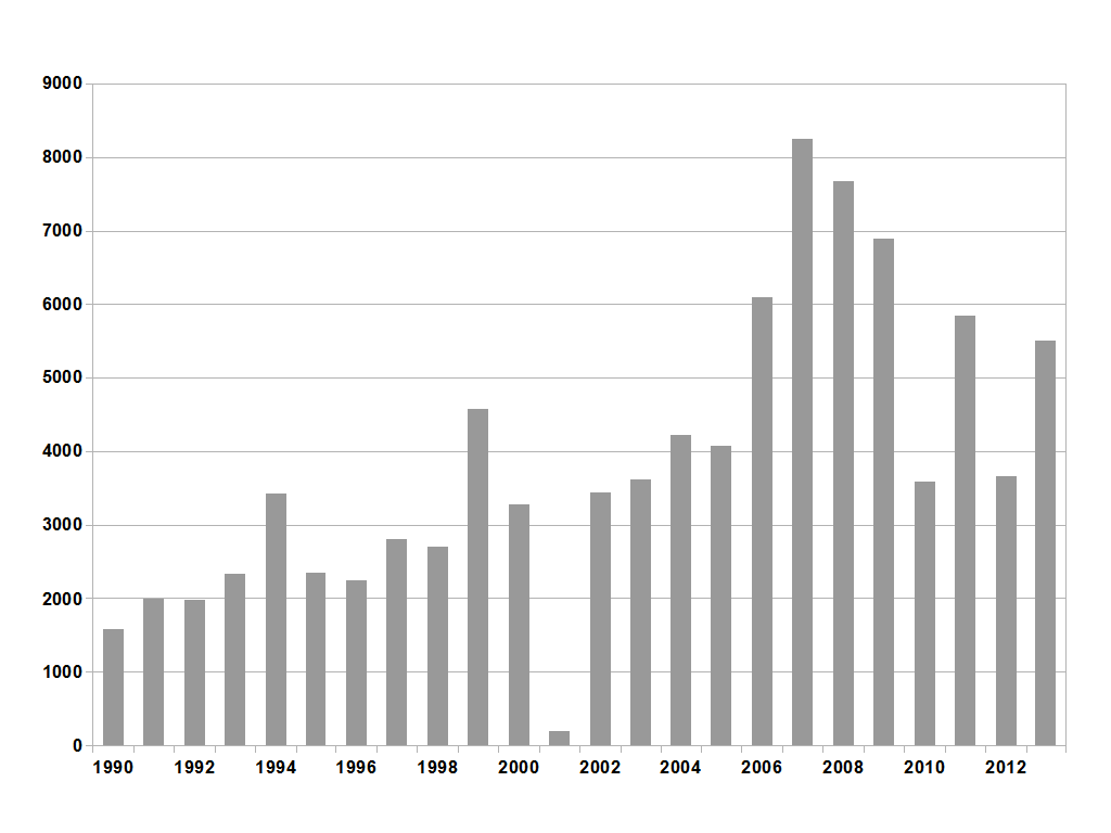 Afganistan opium production in metric tonnes. In July 2000, the Taliban banned the cultivation of opium poppies. Cultivation was restored when Afghanistan was invaded, in October, 2001. Data from United Nations Office on Drugs and Crime.[1]